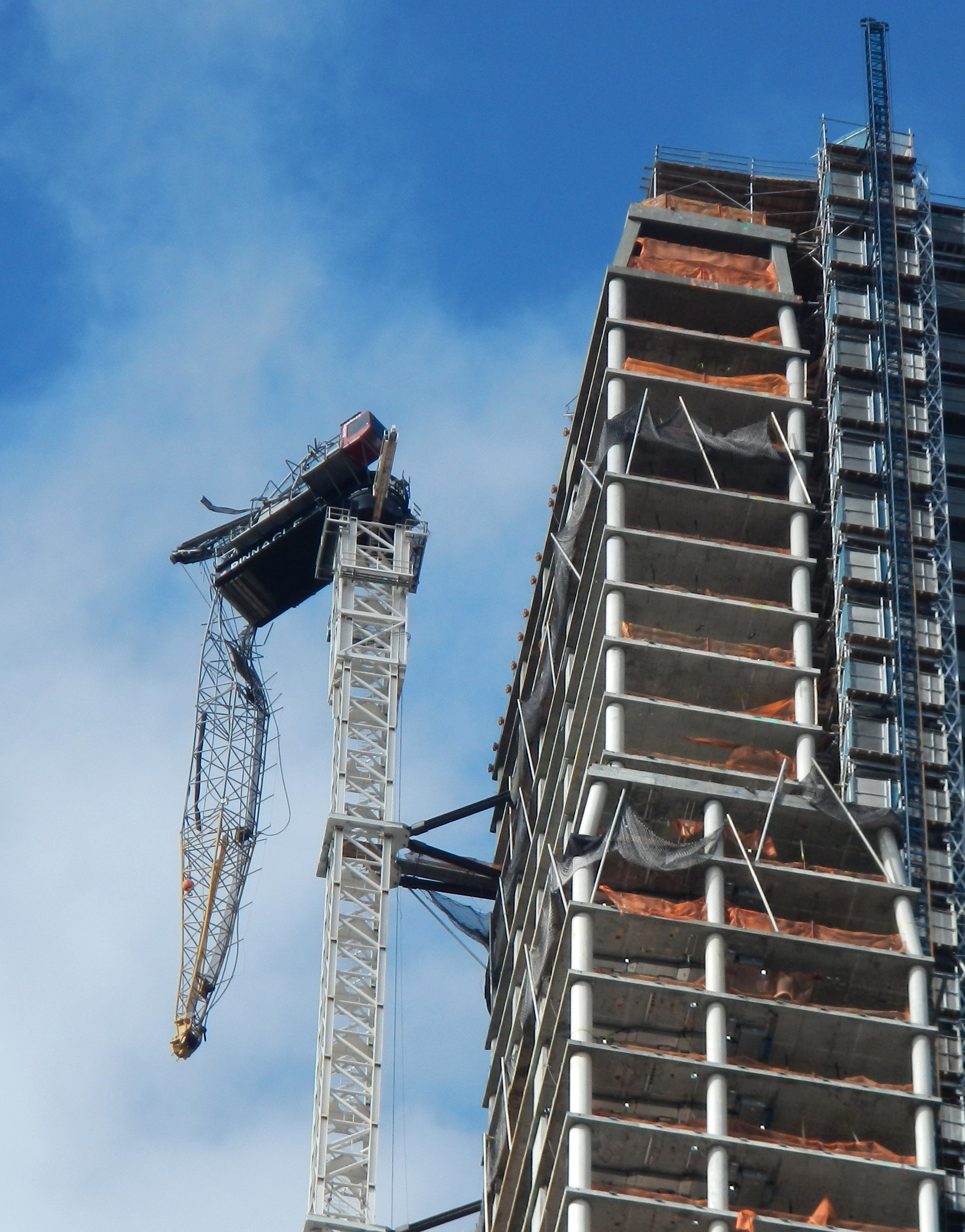 Looking west from 6th Avenue at dangling crane at a sunny moment in a mostly cloudy morning.